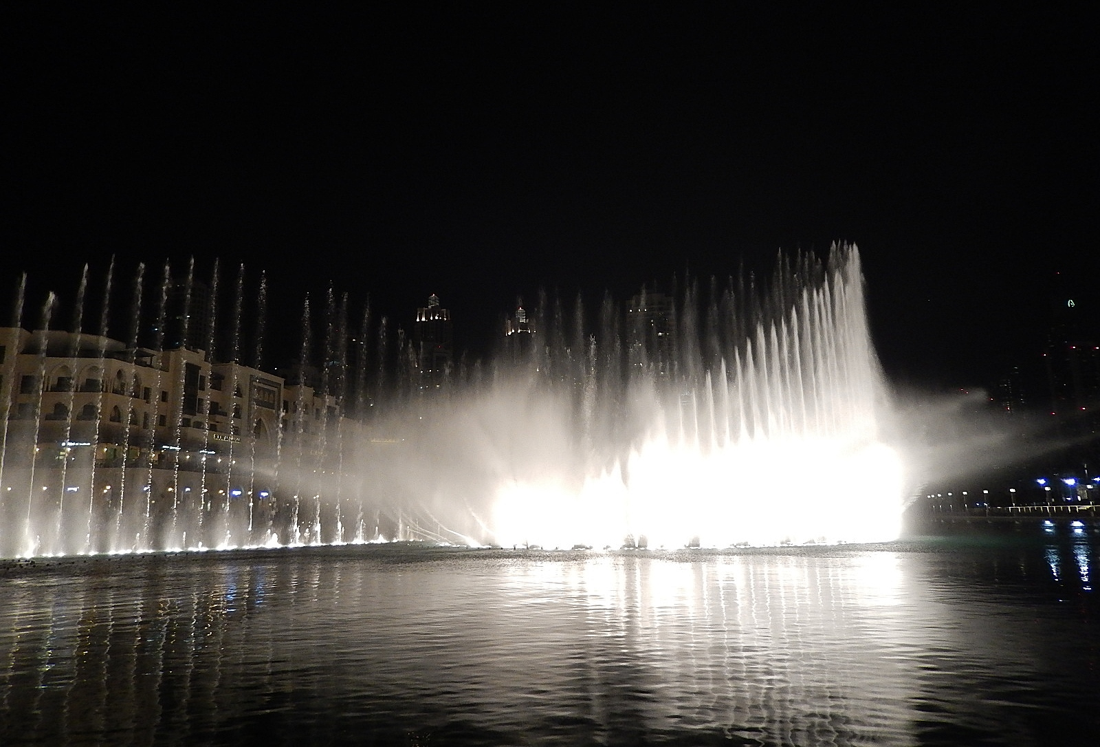 Dancing Water